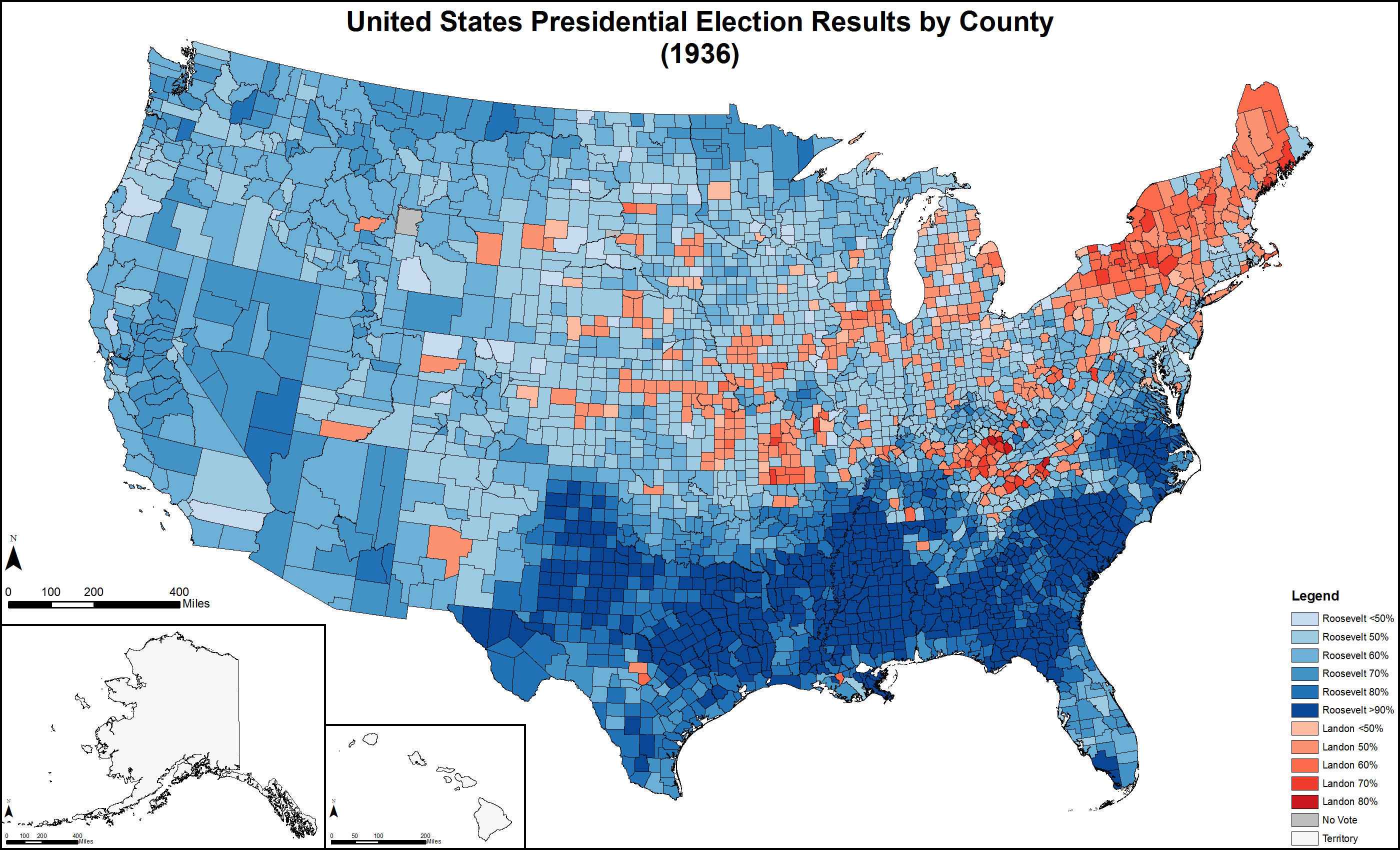 Presidential election results by county (1936). Colors based on Colorbrewer 2.0.